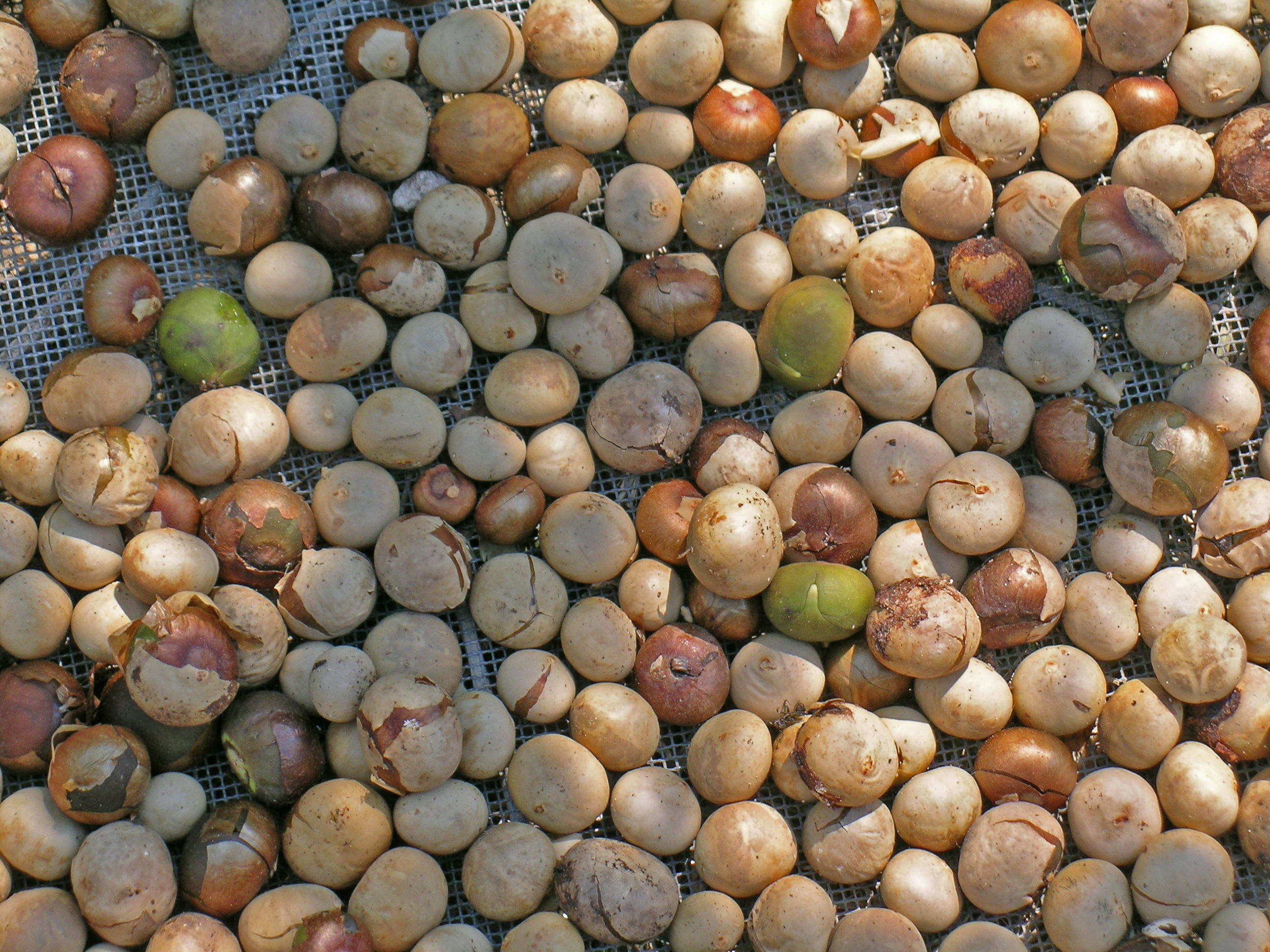 Brosimum alicastrum (ramon, breadnut) nuts being dried in the sun